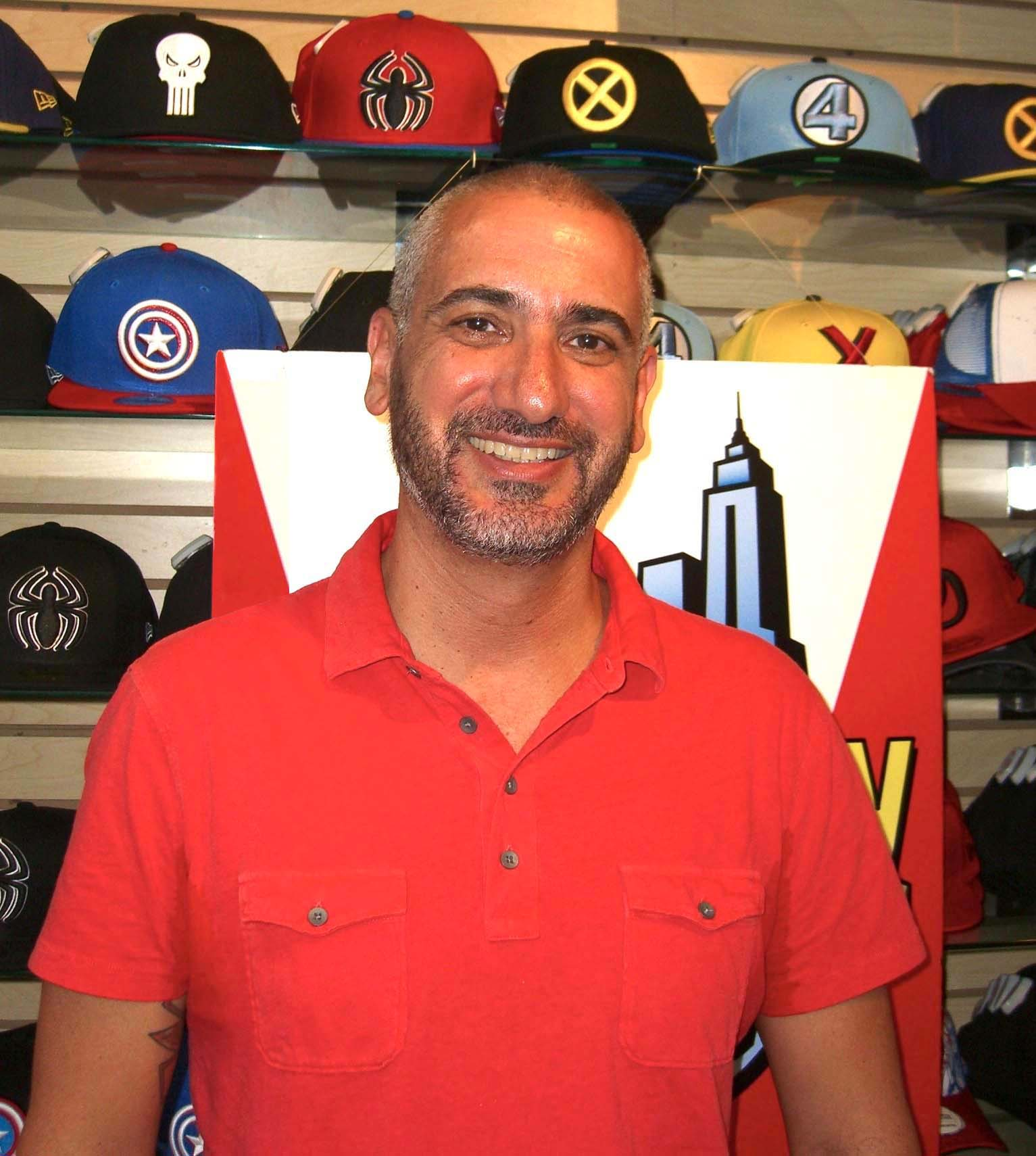 Marvel Comics editor-in-chief Axel Alonso at a "Meet the Publishers" Q & A session at Midtown Comics Downtown in Manhattan, April 14, 2011. This photo was created by Luigi Novi. It is not in the public domain, and use of this file outside of the licensing terms is a copyright violation.